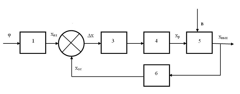 Автоматическая сварка, блок схема